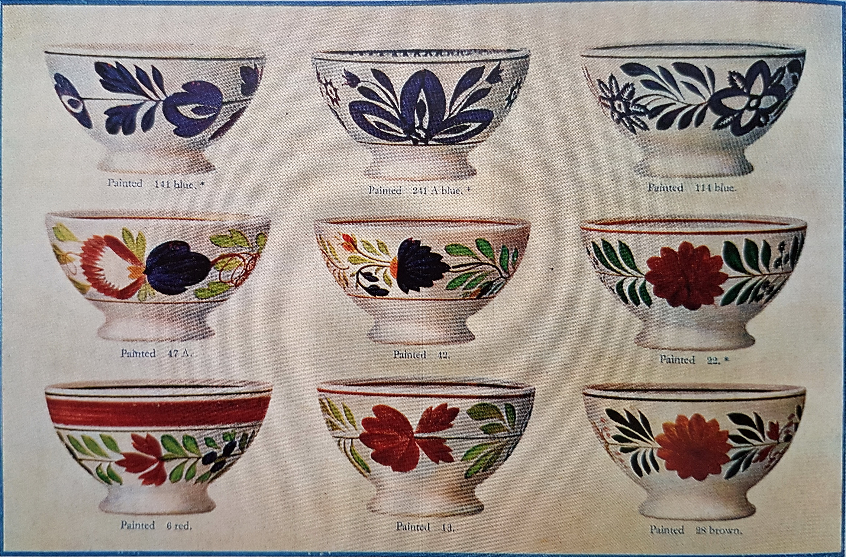 A page from a 19th-century English-language catalogue of Petrus Regout Potteries in Maastricht, the Netherlands. The bowls are decorated with the famous Boerenbont motive. Collection of Sociaal Historisch Centrum, Maastricht.